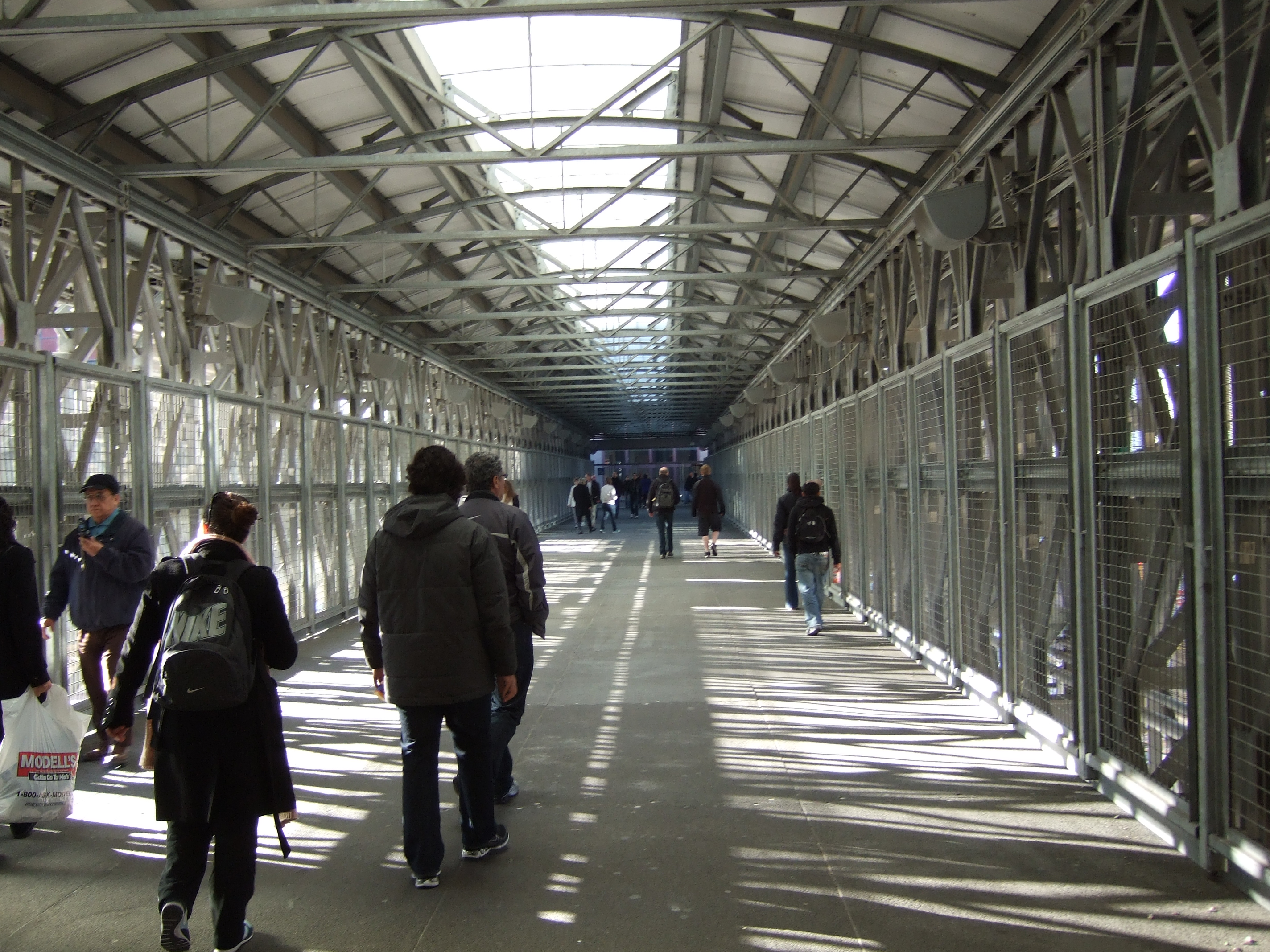 Looking west in the Vesey Street bridge, Manhattan, New York City